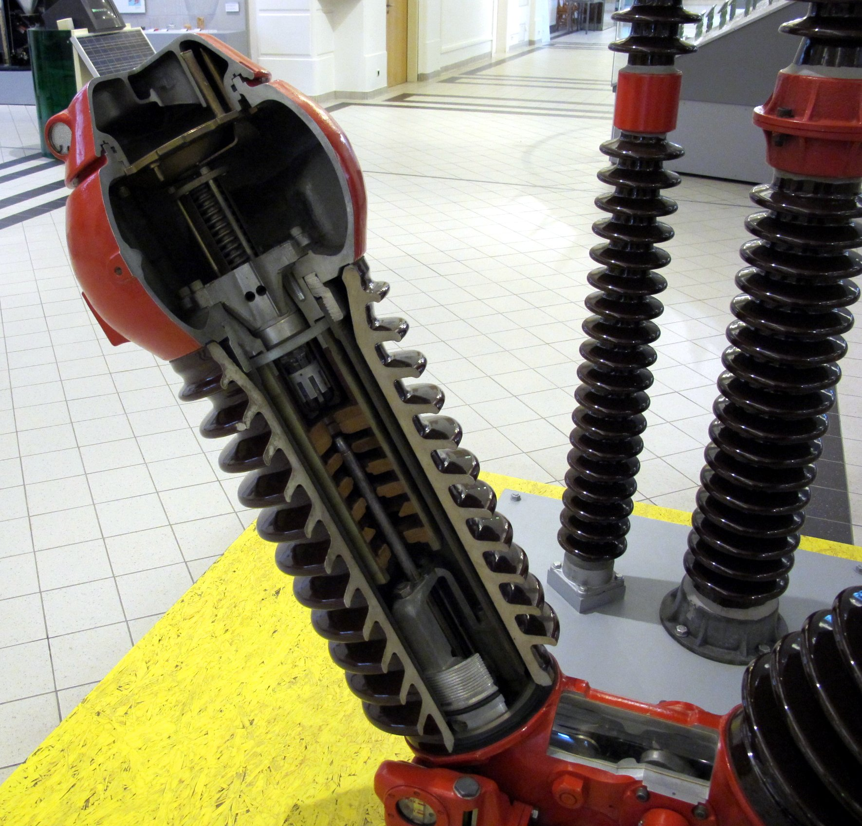 Cutaway model of an oil-filled high-voltage circuit breaker. The valves are actuated by a motor drive which is via rods and levers with the connected centrally in the inner switching pole mounted. The interior is completely filled with insulating oil during normal operation. Short-circuit power: 1.3 gigawatts Operating voltage: 110 kV per switch. By series connection of two switches: 220 kV Insulating medium: oil Manufacturer: Alstom, model 50074G HPF